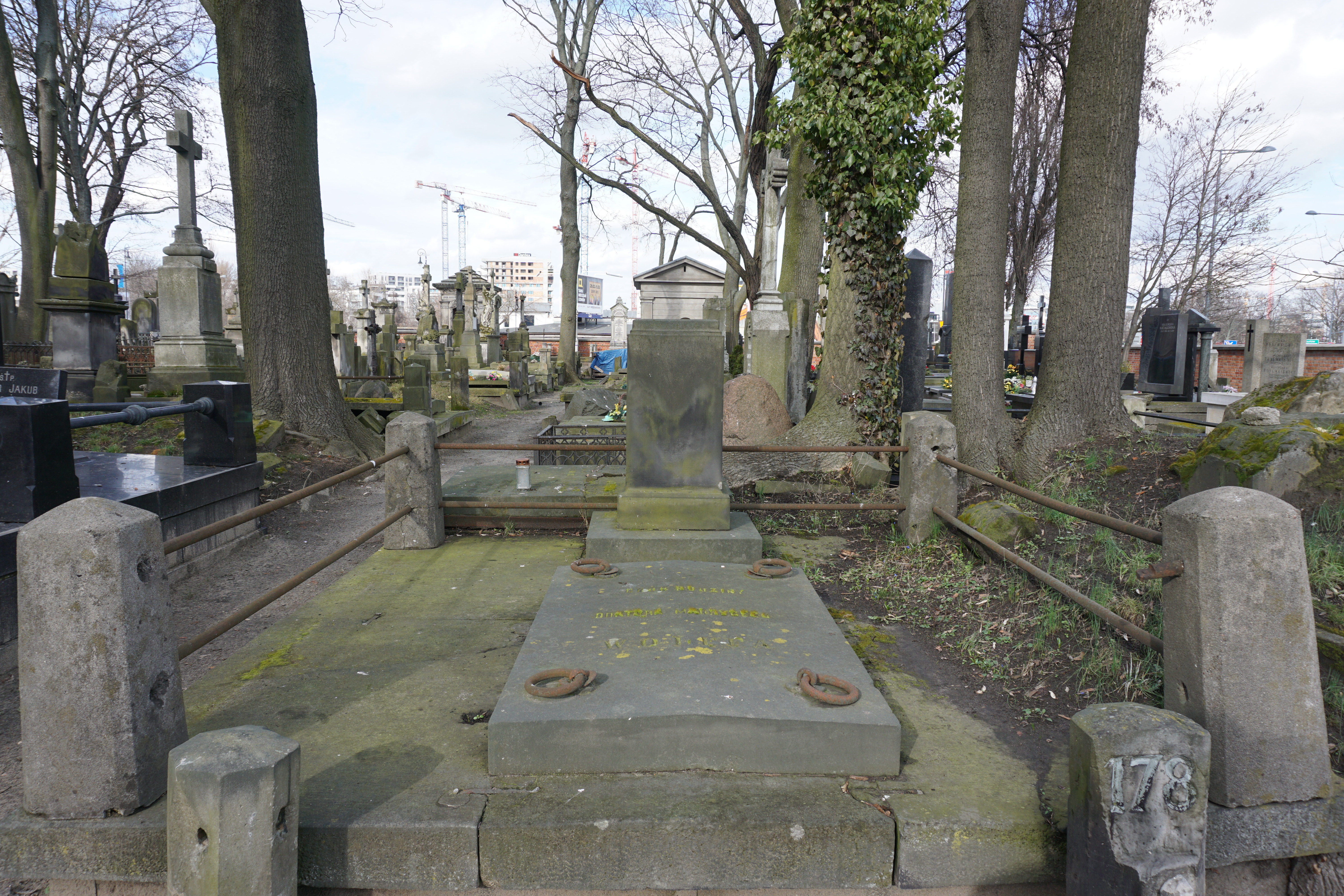 The grave of Maurycy Wolff at the Powązki Cemetery (section 178, row 2, grave 31, 32)